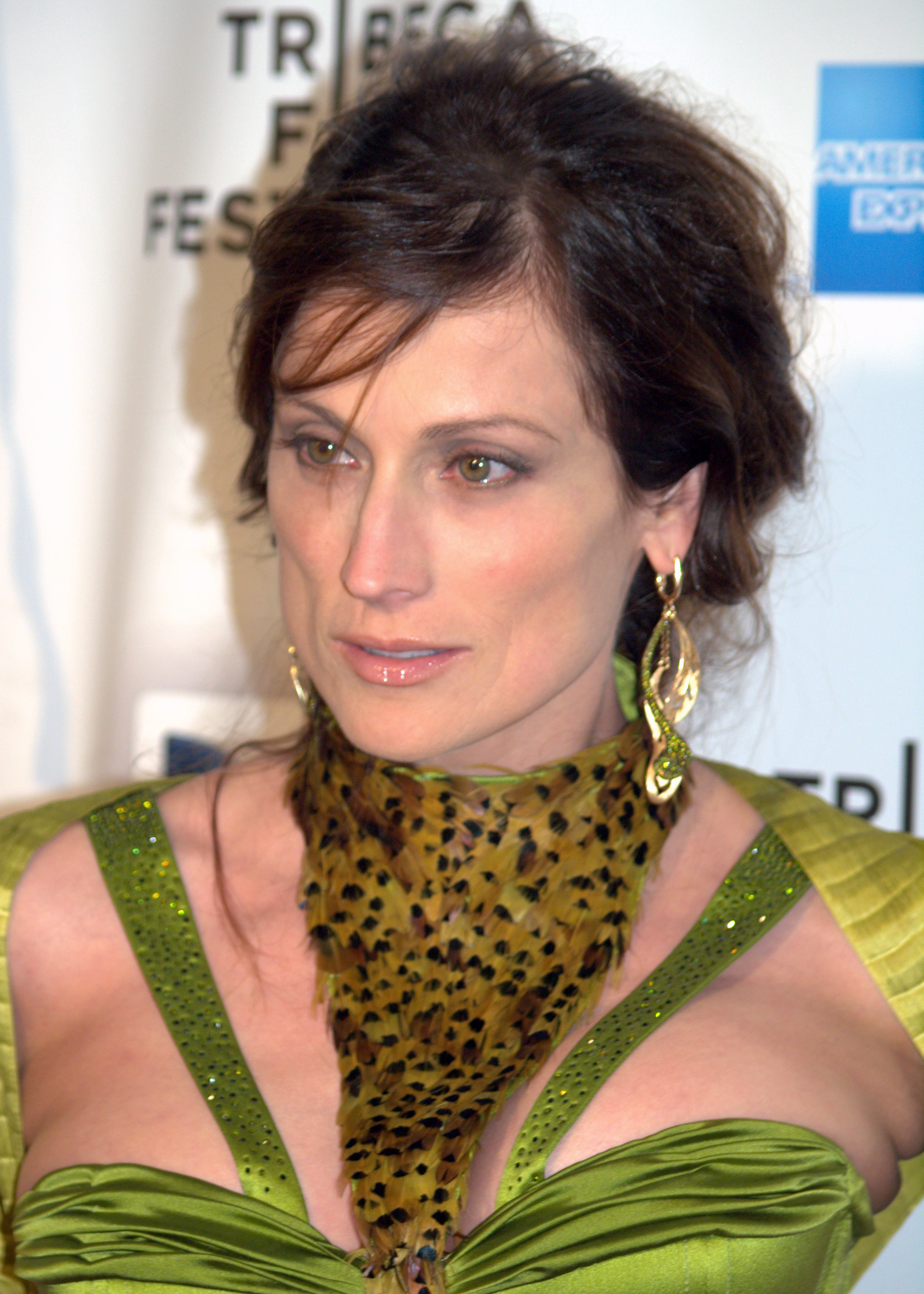 Nancy LaScala at the 2009 Tribeca Film Festival premiere of Woody Allen's Whatever Works.